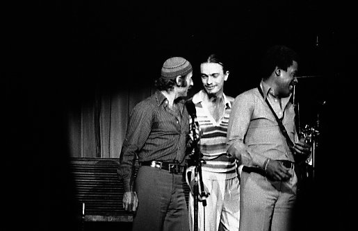 Convocation Hall, Toronto, NOV. 27, 1977 (Joe Zawinul, Jaco Pastorius, and Wayne Shorter)